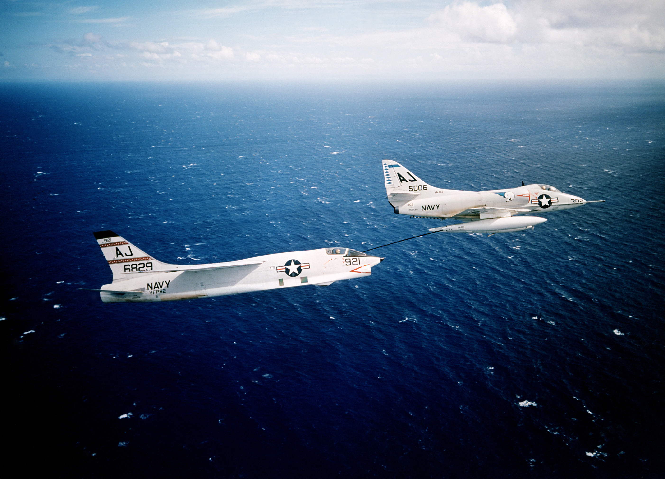 A Douglas A4D-2 Skyhawk (BuNo 145006) of Attack Squadron 83 (VA-83) "Rampagers" is refueling a Vought F8U-1P Crusader (BuNo 146829) of Photographic Reconnaissance Squadron 62 (VFP-62) Det.42 "Fighting Photos". Both squadrons were part of Carrier Air Group 8 (CVG-8) aboard the carrier USS Forrestal (CVA-59) in the early 1960s. Note: The date given "26 Jun 1987" has to be incorrect, as both types of aircraft were then long out of the U.S. Navy inventory. Also, the A4D-2 145006 crashed 17 km (10 mi) astern of the USS Forrestal on 16 November 1962. The pilot was killed in this accident. The F8U-1P 146829 crashed on 7 November 1962. The pilot ejected.